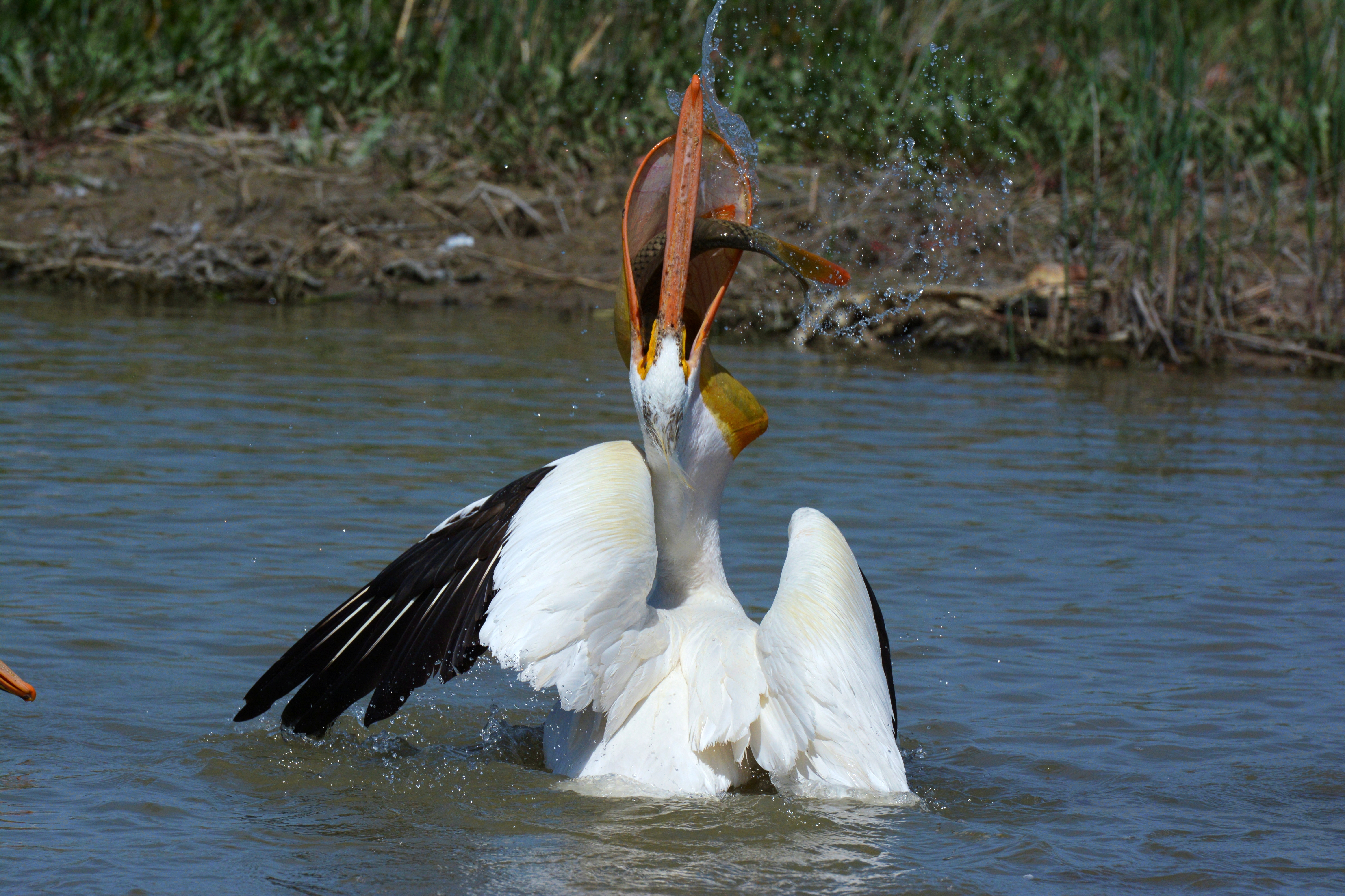 American White Pelican with its head up and neck stretched swallowing a large carp. Entrant in Bear River Refuge 2014 photo contest in animal behavior category. Photo Credit: Wayne Watson / USFWS